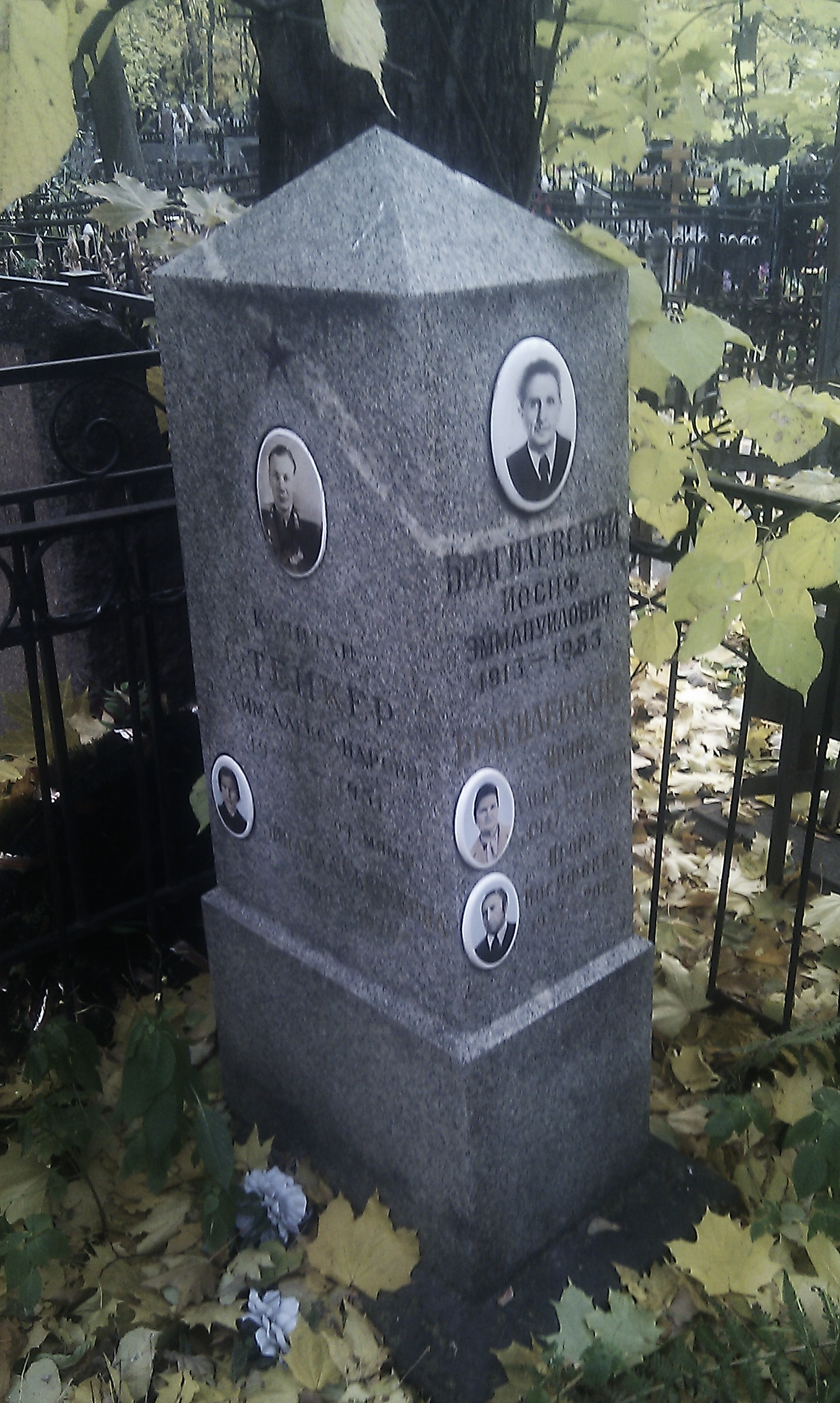 Bragilevsky monument